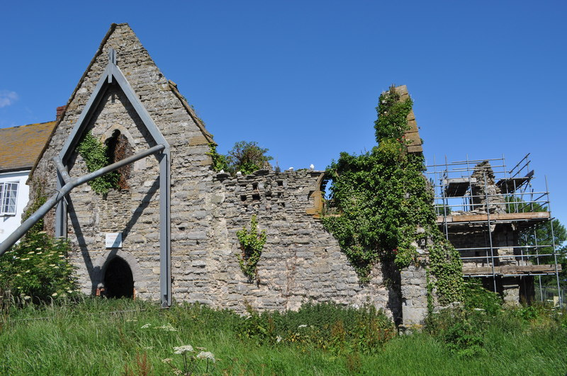 Chantry (remains of), Data from Geograph: Description: The old chantry is a real ruin, the support is all that is keeping that wall up. From side view you can see the lean. It was founded in 1329 by Sir Simon Furneaux for five monks to pray for his soul. The buildings were gutted by... more ICBM: 51.189091851285, -3.2232469343455 Location: (about 1 km from) near to East Quantoxhead, Somerset, Great Britain.